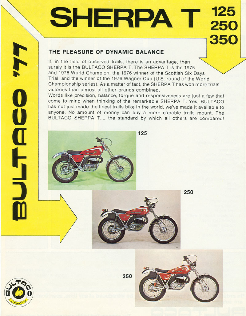 1977 Bultaco Sherpa T brochure